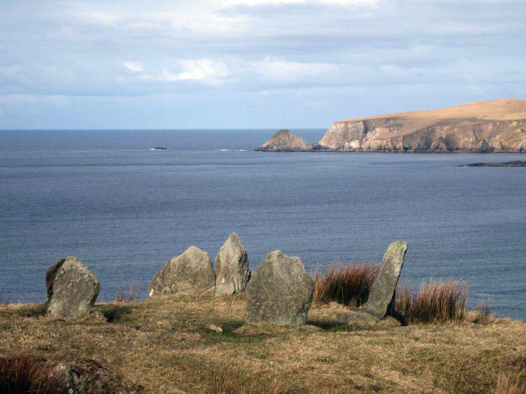 Glengad stone circle overlooking Broadhaven Bay, Kilcommon, Erris, North Mayo, Ireland